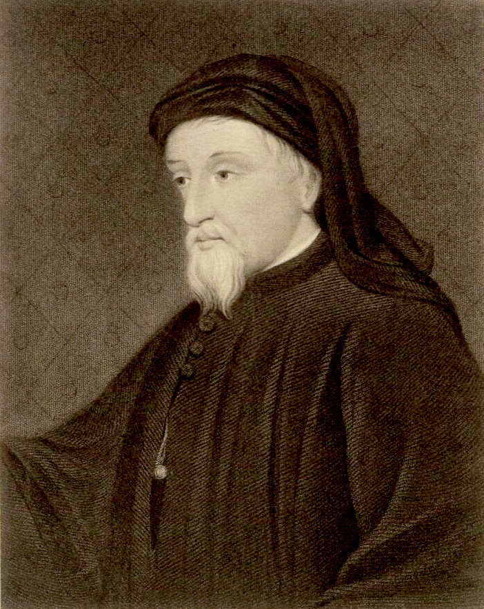 A portrait from the Welsh Portrait Collection at the National Library of Wales. Depicted person: Geoffrey Chaucer – English poet and author, 1343-1400